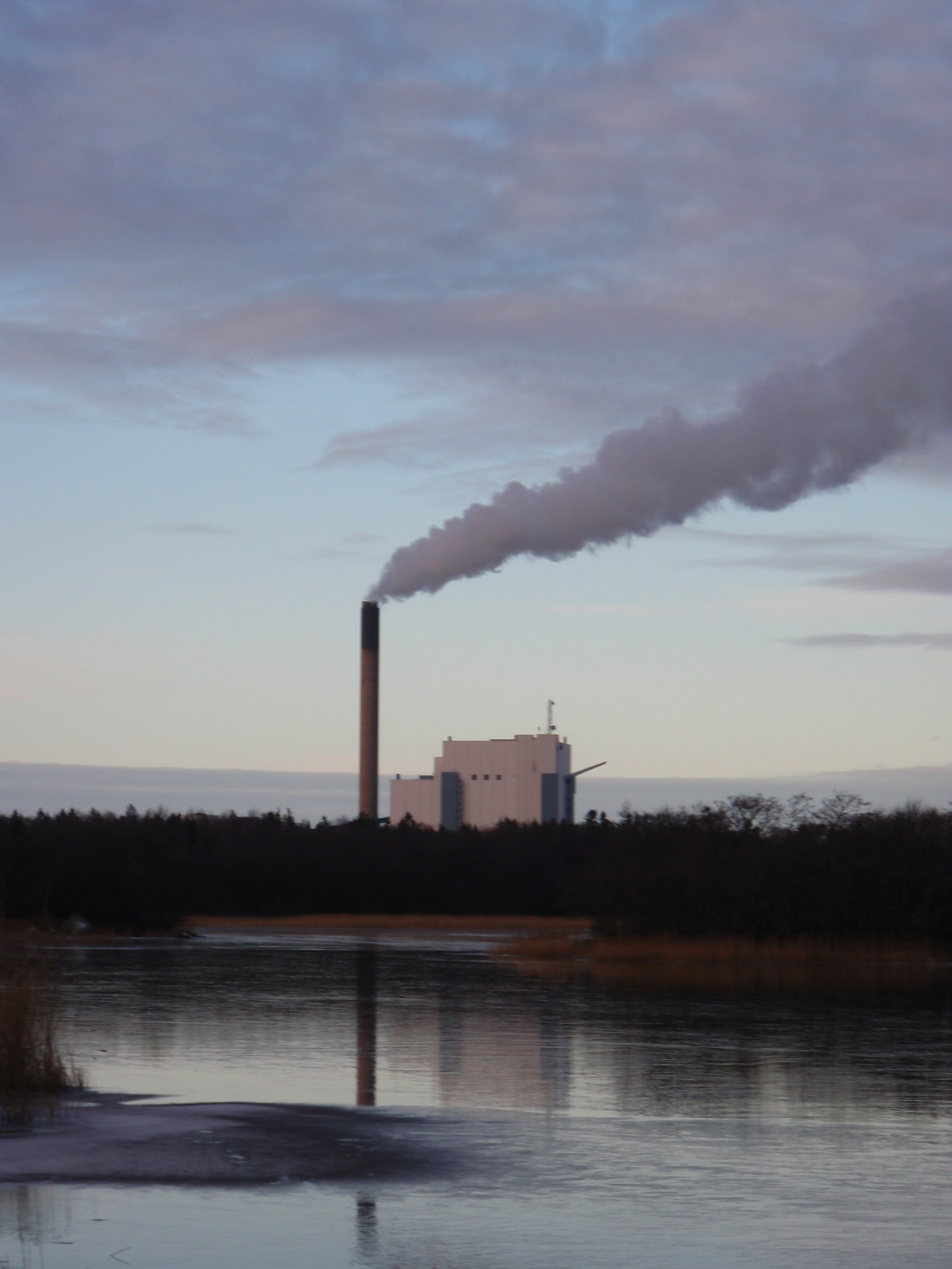 Tahkoluoto coal power plant.